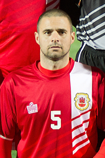 Gibraltarian football player, Ryan Casciaro